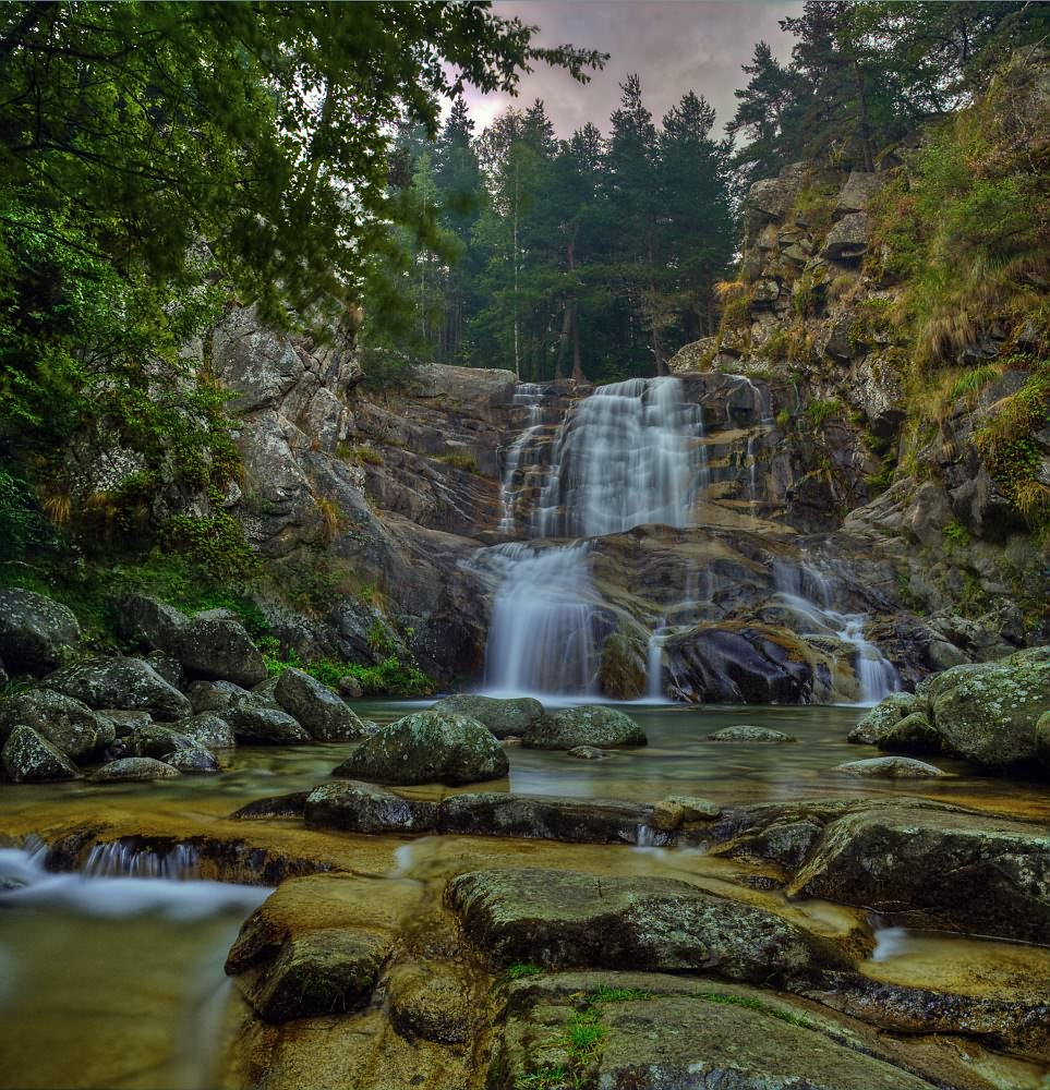 Popinolashki waterfall, Bulgaria